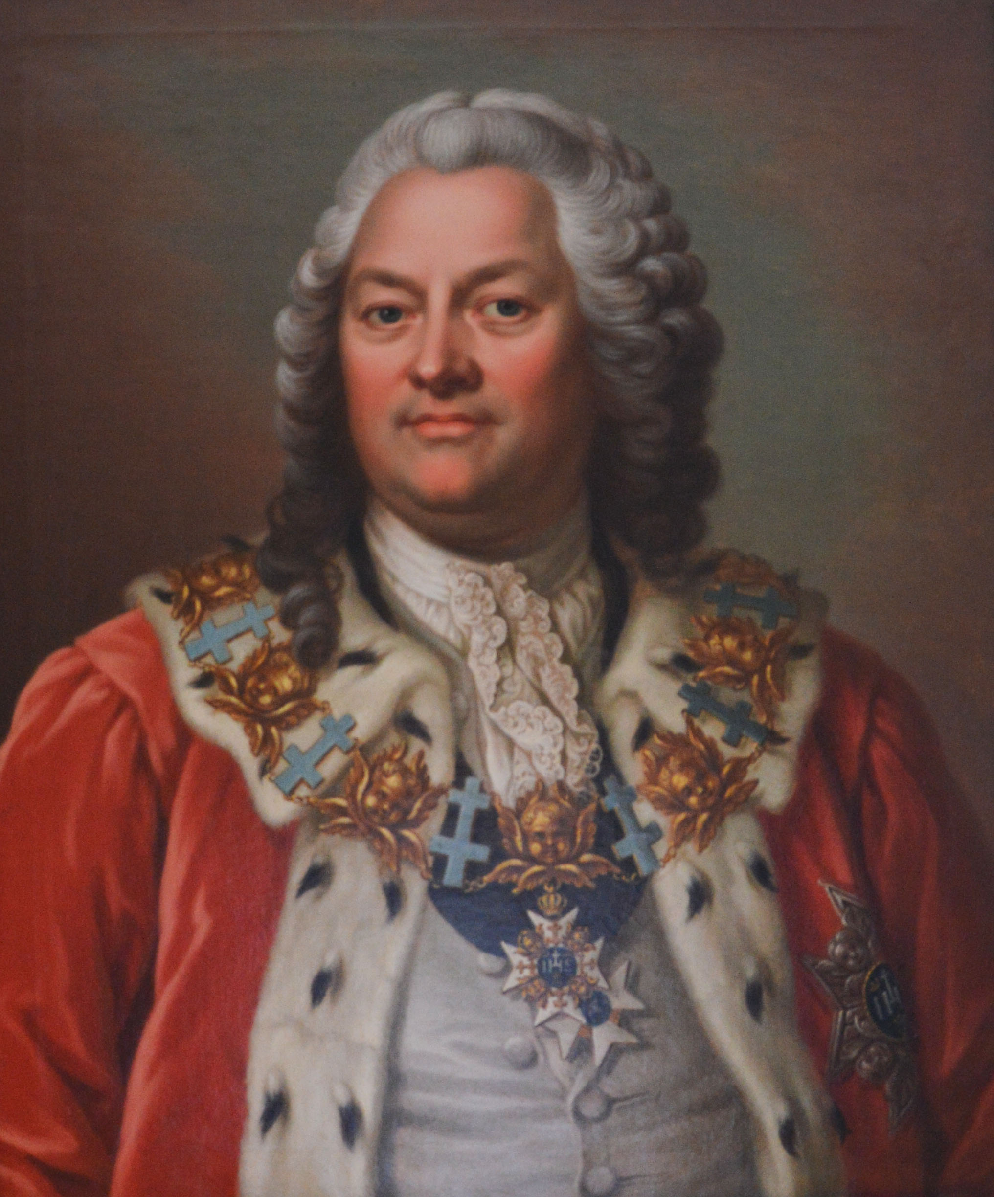 Carl Gustaf Löwenhielm (1701-1768), Swedish count, civil servant, member of the privy council and chancellor of Lund University.